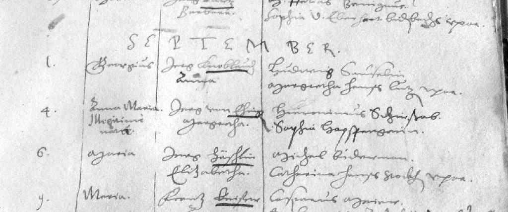 Entry of the christening of Anna Maria von Ehingen on 4. September 1573 in the library of the Stiftskirche Tübingen (Germany)